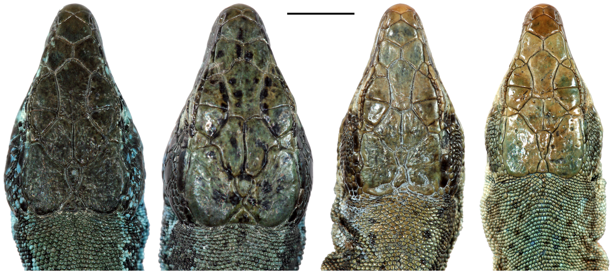 Dorsal view of the heads of the holotypes of four Darevskia species (from left to right): Darevskia caspica; Darevskia kamii; Darevskia kopetdaghica; and Darevskia schaekeli. Scale bar represents 5 mm.